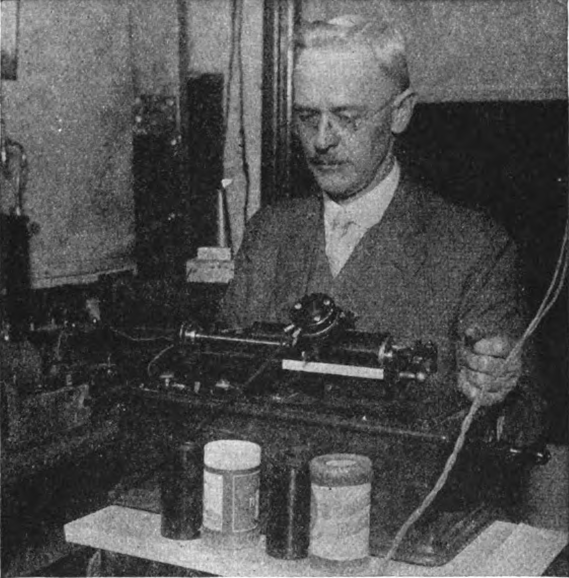 Amateur radio operator Charles E. Apgar with his wax cylinder invention for recording wireless telegraphy transmissions.